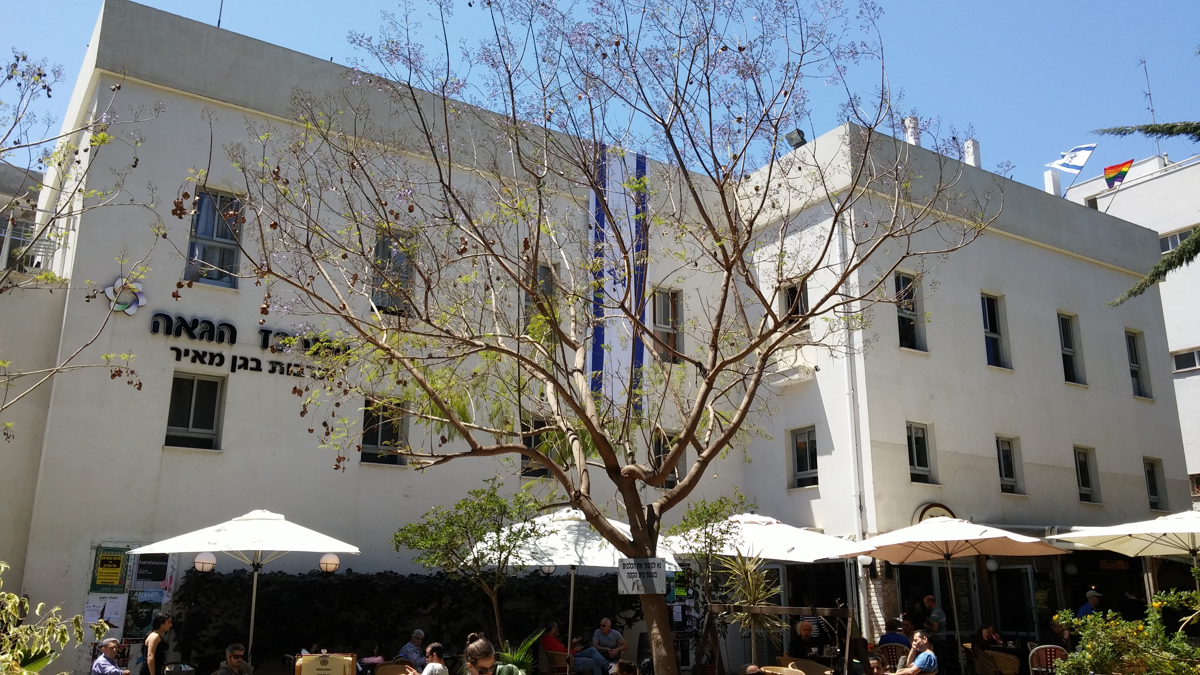 The LGBT Community center at Gan Meir in Tel Aviv